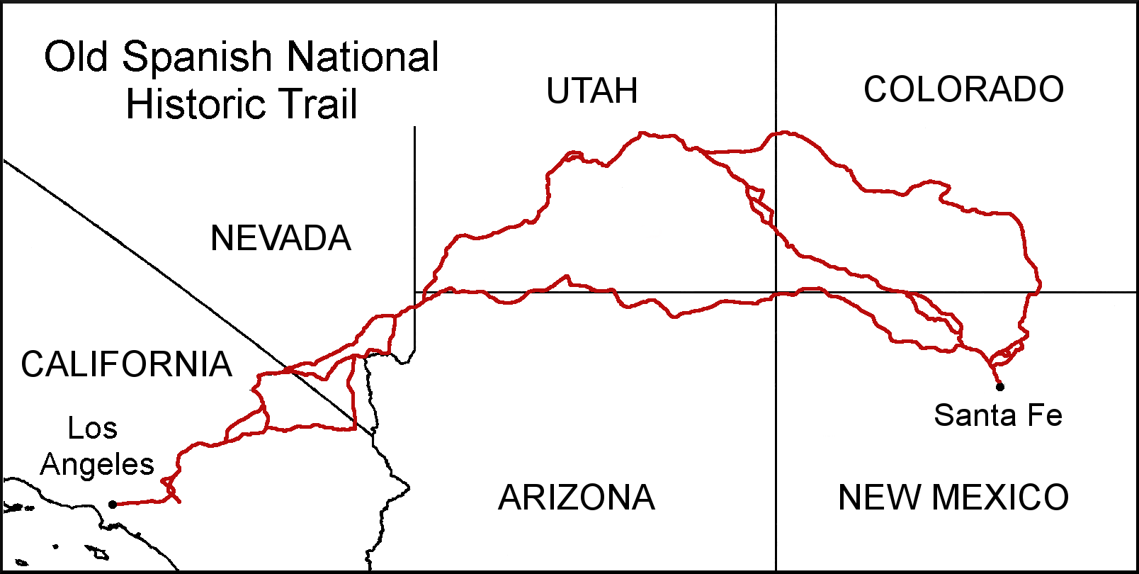 Map of the Old Spanish National Historic Trail showing the Armijo (Southern) Route, the Main Route, and the North Branch. Adapted from the National Park Service map published in 2009.